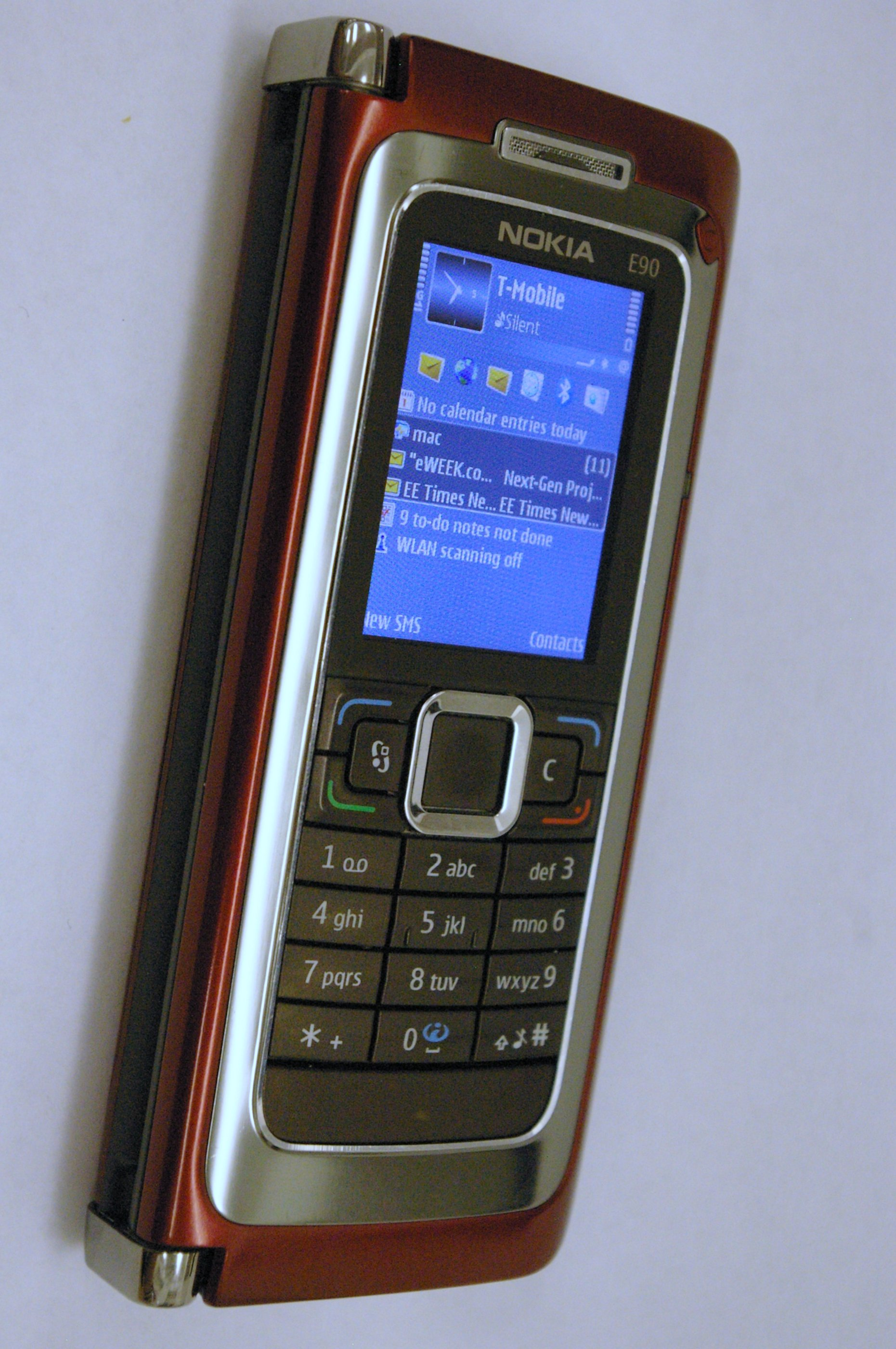 My mobile data workhorse in the rare red case